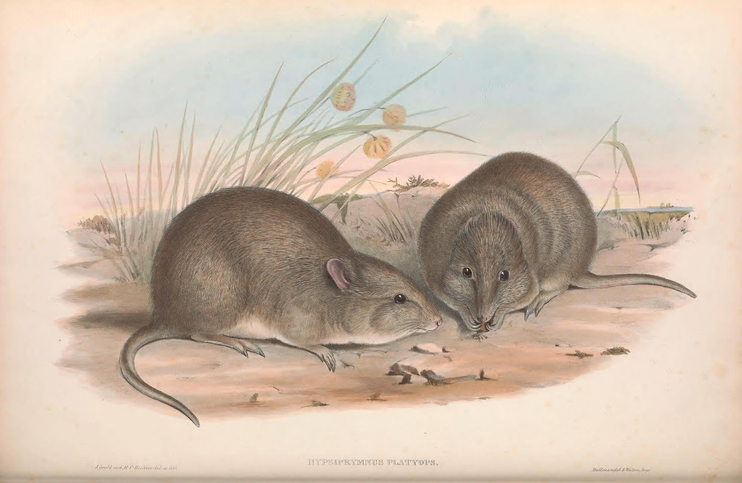 Potorous platyops (formerly known as Hypsiprymnus platyops)